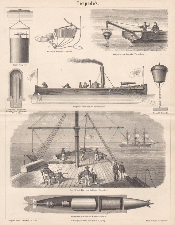 Harvey's Torpedo - 3rd edition of "Meyers' Konversations Lexikon"